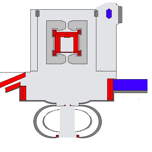 Versailles as it was altered under Louis XIII. Eicht salons were added in the corners of the building.